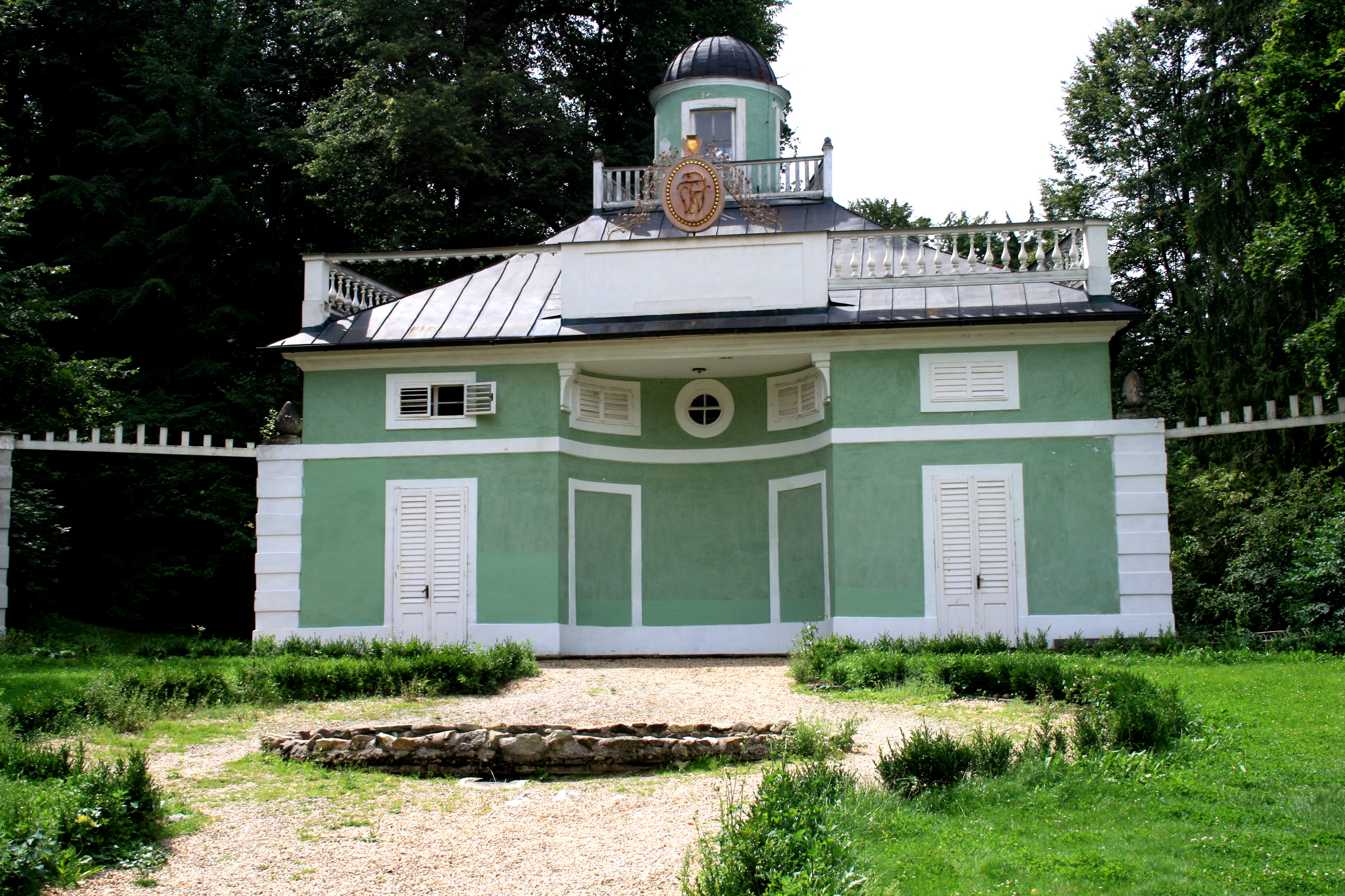 Building called "Lázničky" in Terezka waley near Nové Hrady, South Bohemia, Czech Republic